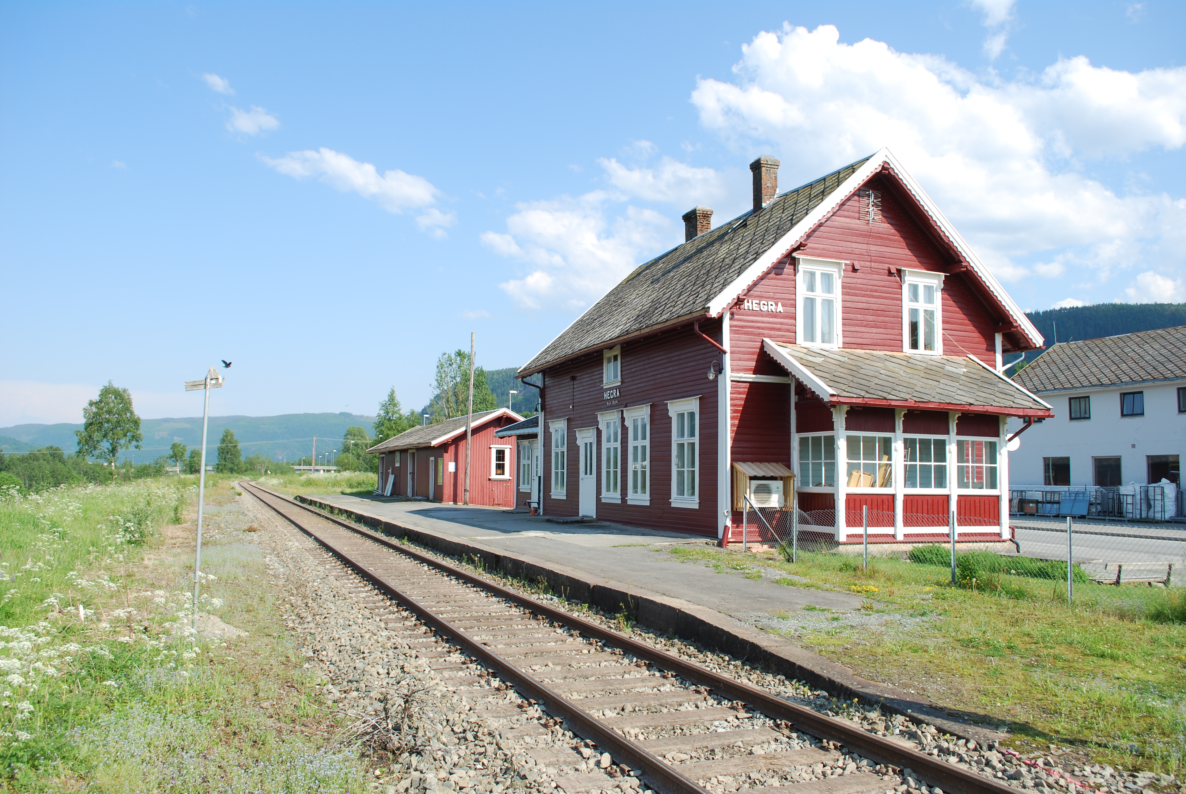 Hegra train station in Stjørdal, Nord-Trøndelag, Norway.